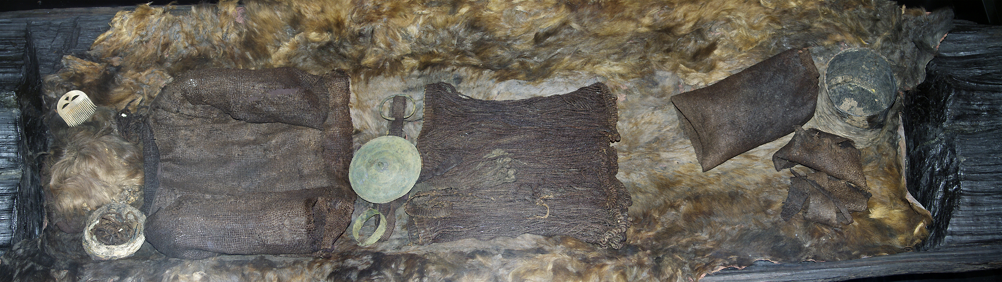 Egtvedpigen at the National Museum in Copenhagen. Bronze Age corpse, died in summer 1370 BC.